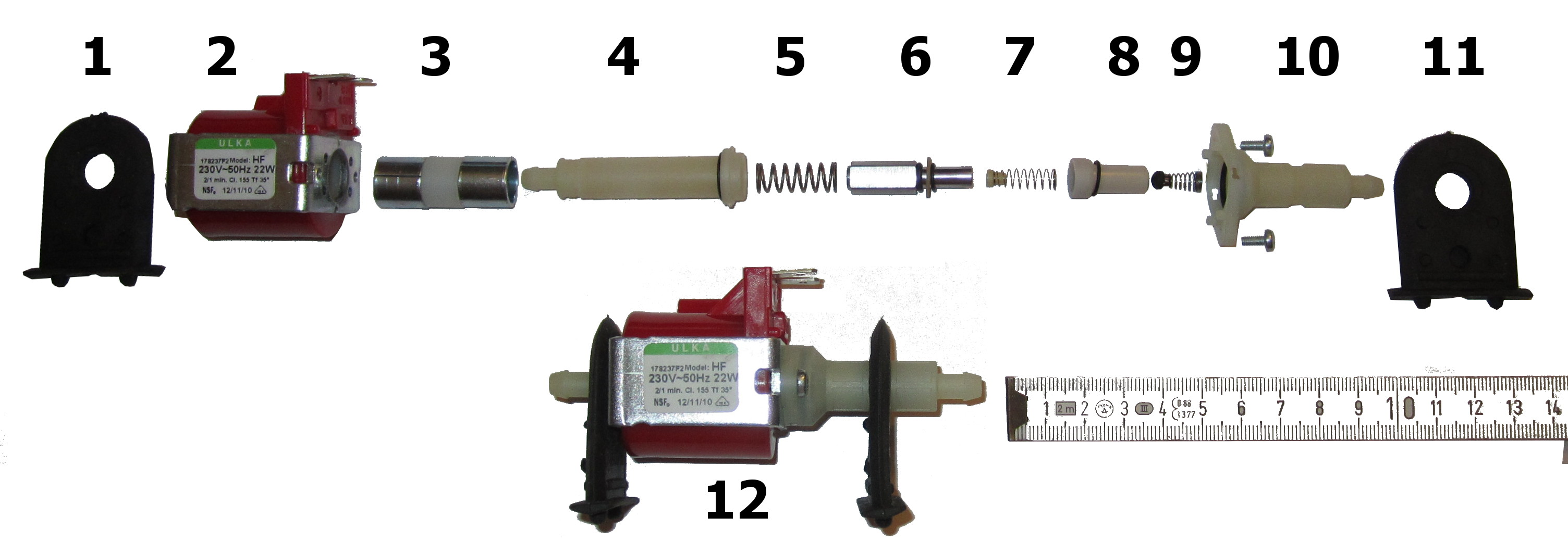 Vibration pump (Oscillating anchor pump, magnetic piston pump) as used in household appliences as coffee- and espresso Machines, scale in centimeters.